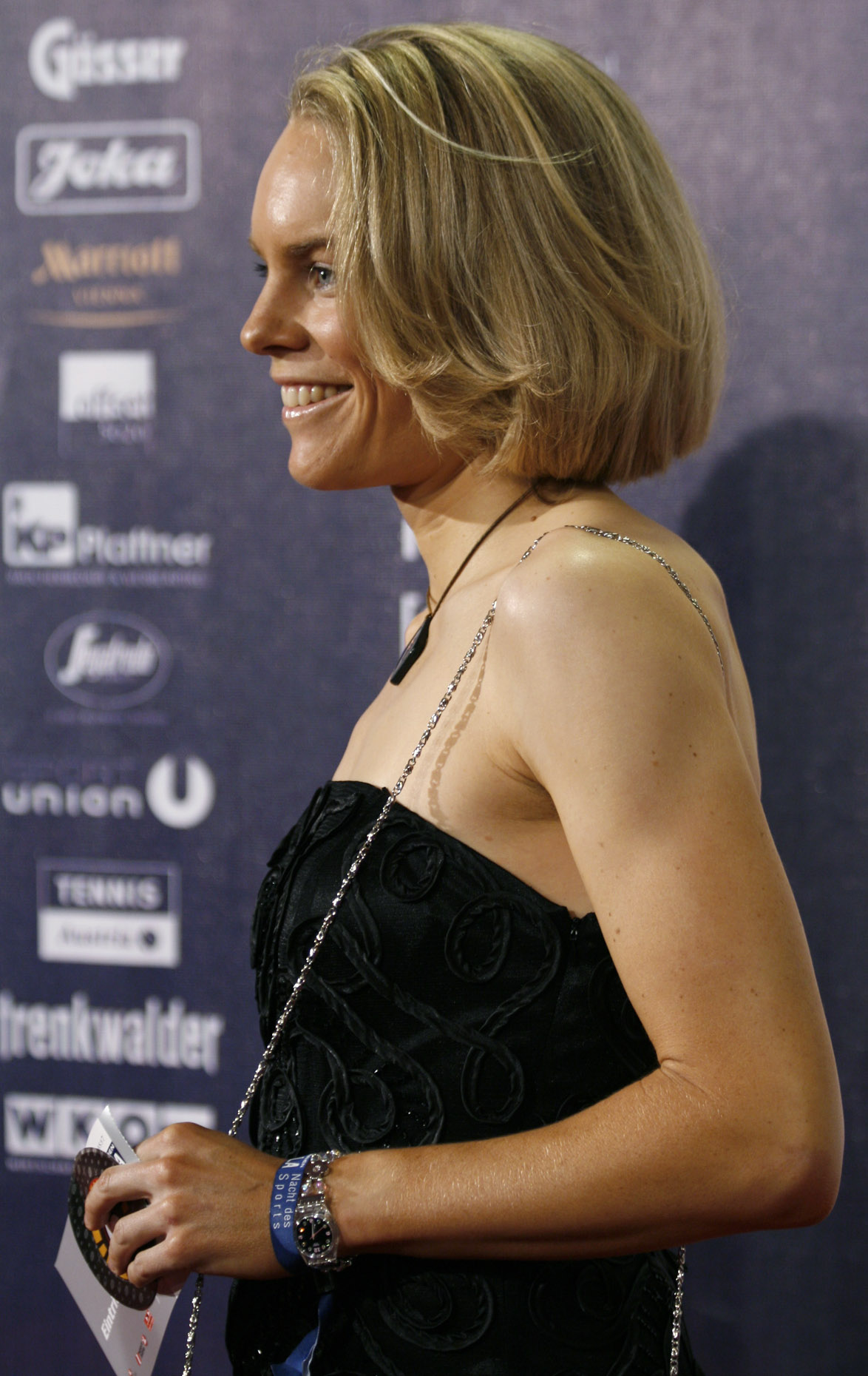 Austrian road racing cyclist Christiane Soeder at the Galanacht des Sports (Gala-Night of Sports), where she was honoured as third-placed in the election of the Austrian Sportswoman of the year 2008.